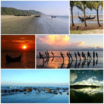 view of Cox's Bazar.